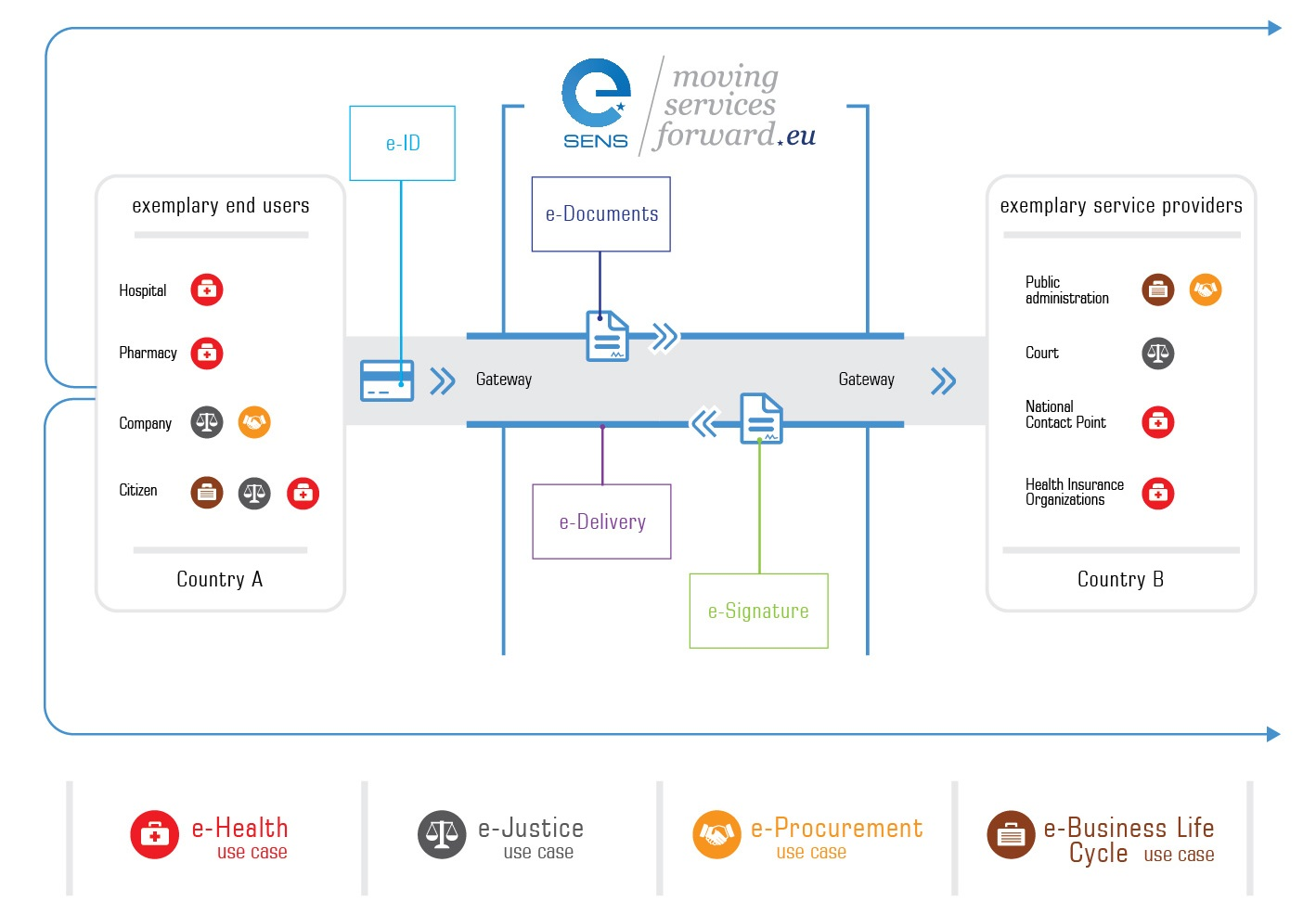 e-SENS (Electronic Simple European Networked Services) - paving the way to the ‘live’ phase of cross-border digital public services. The EU digital single market and the facilitation of public services across borders. A Digital Single Market Strategy for Europe on